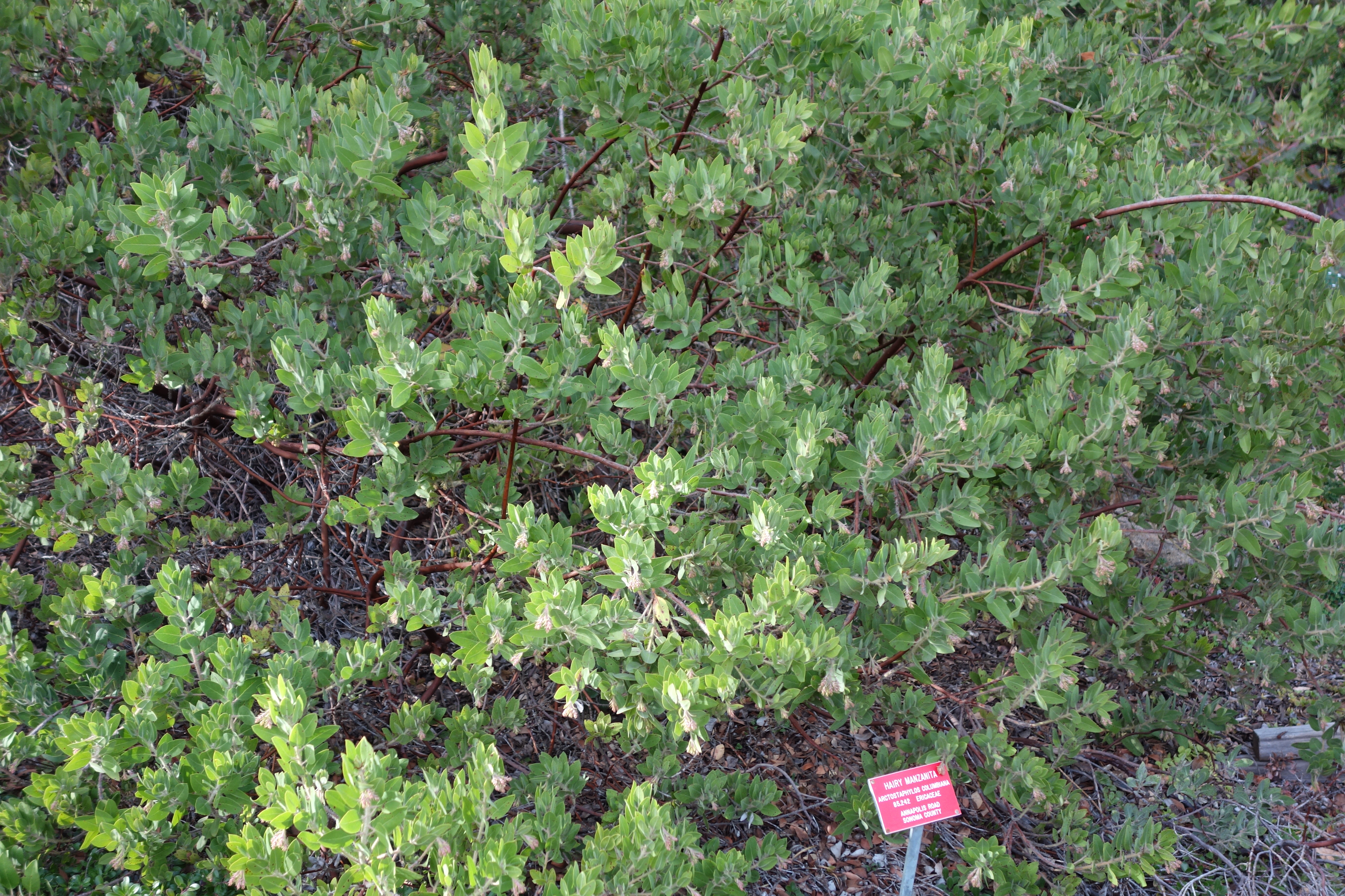 Botanical specimen in the Regional Parks Botanic Garden, Berkeley, California, USA.